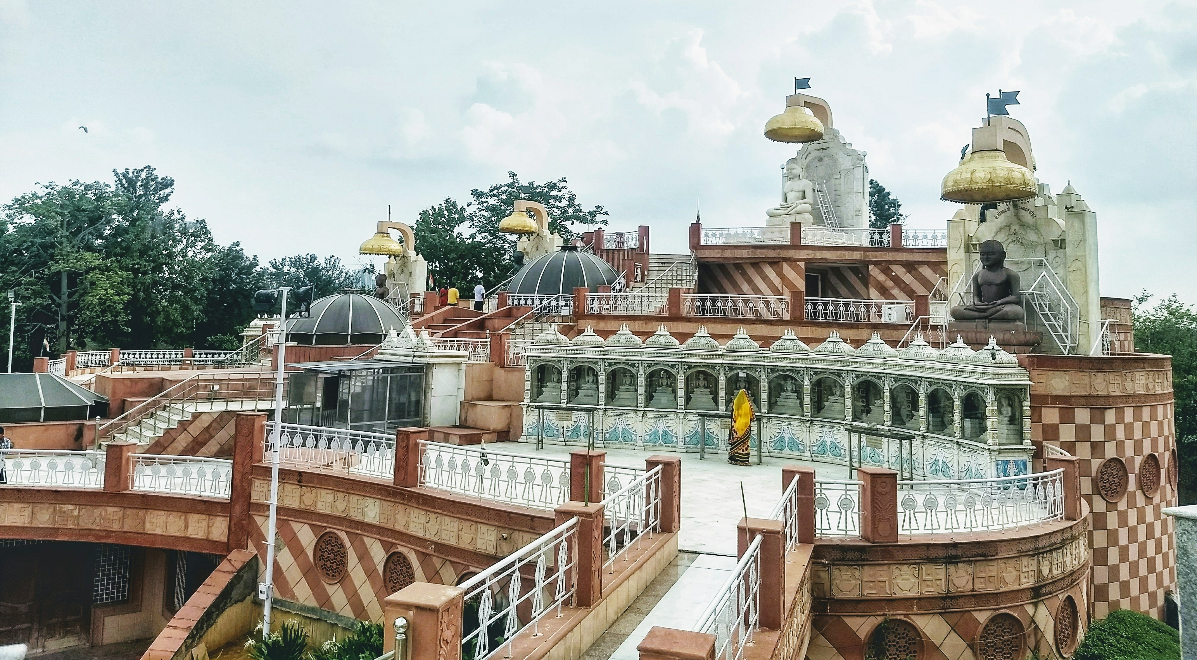 Navagraha temple - Shikhopur